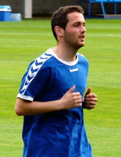 Andrej Keric during FC Slovan Liberec practice.